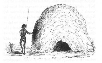 This is an illustration entitled "Substantial native hut" from Volume 1 of John Lort Stokes' 1846 book Discoveries in Australia.